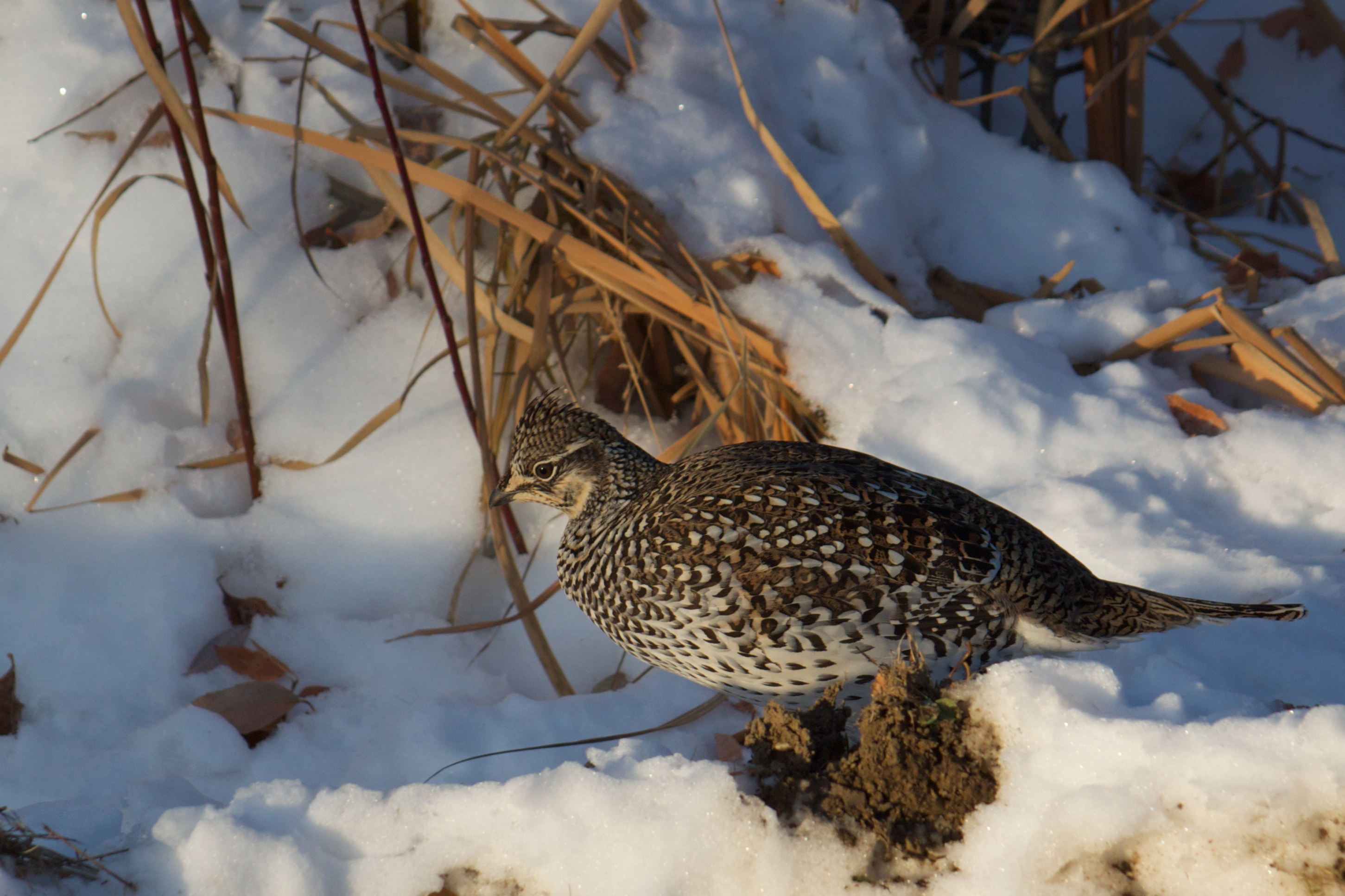 Sharp-tailed Grouse Tympanuchus phasianellus